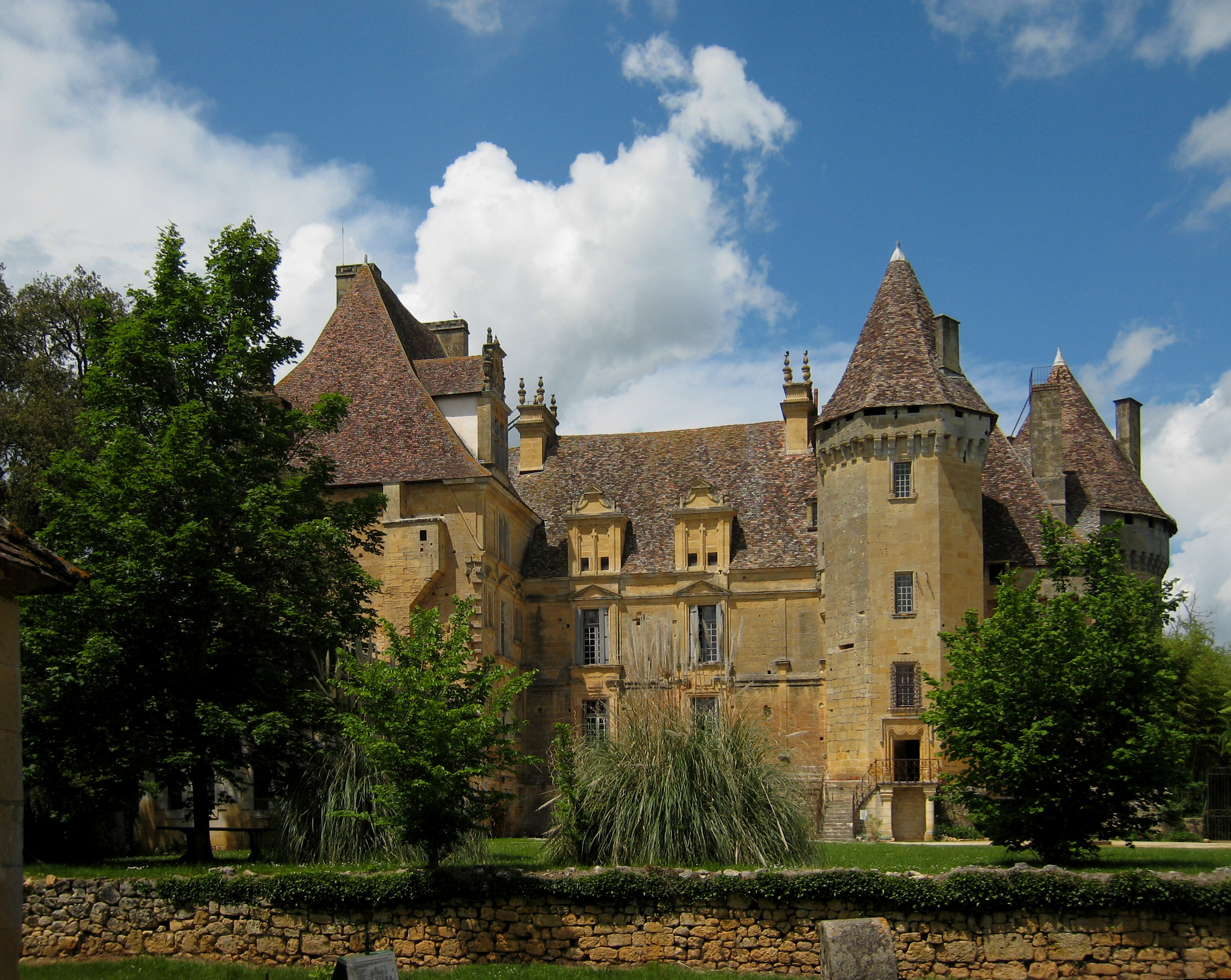 Château de Lanquais near the village of Lanquais, Département Dordogne/France.